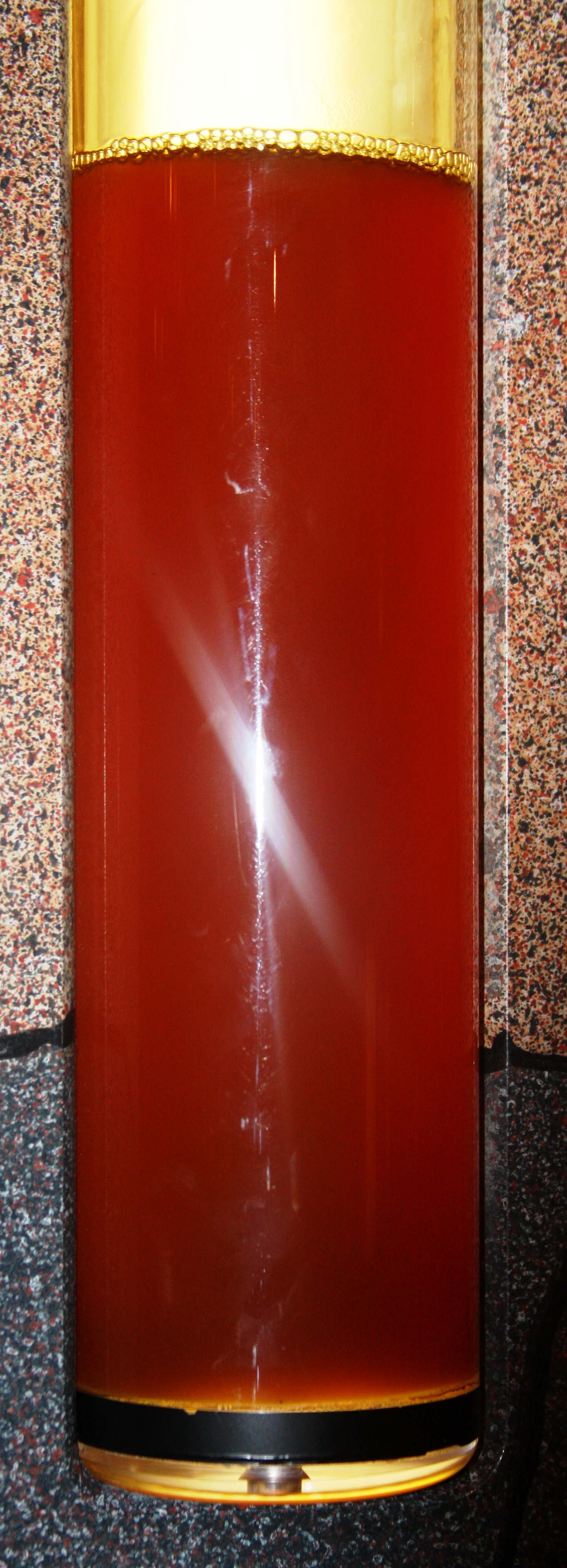 North Sea Oil from the Norwegian continental shelf. This oil is from the Kvitebjørn field. API value = 45.8. Viscosity at 50 degrees Celsius = 1.09 mPas.